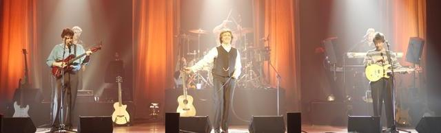 The Full band